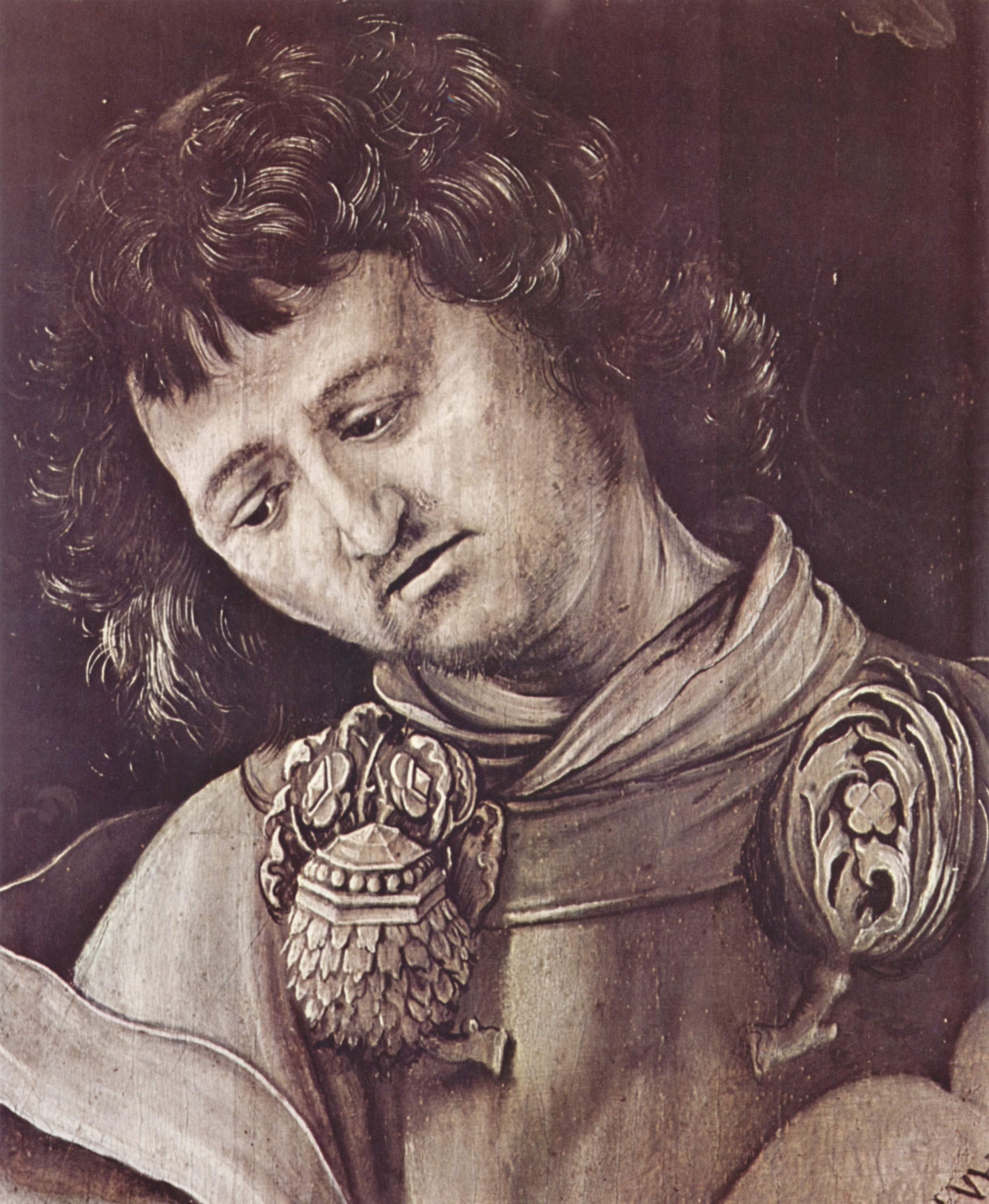 Standing panel, detail: St. Cyriacus exorcizing the daughter of Emperor Diocletian, head of St. Cyriacus